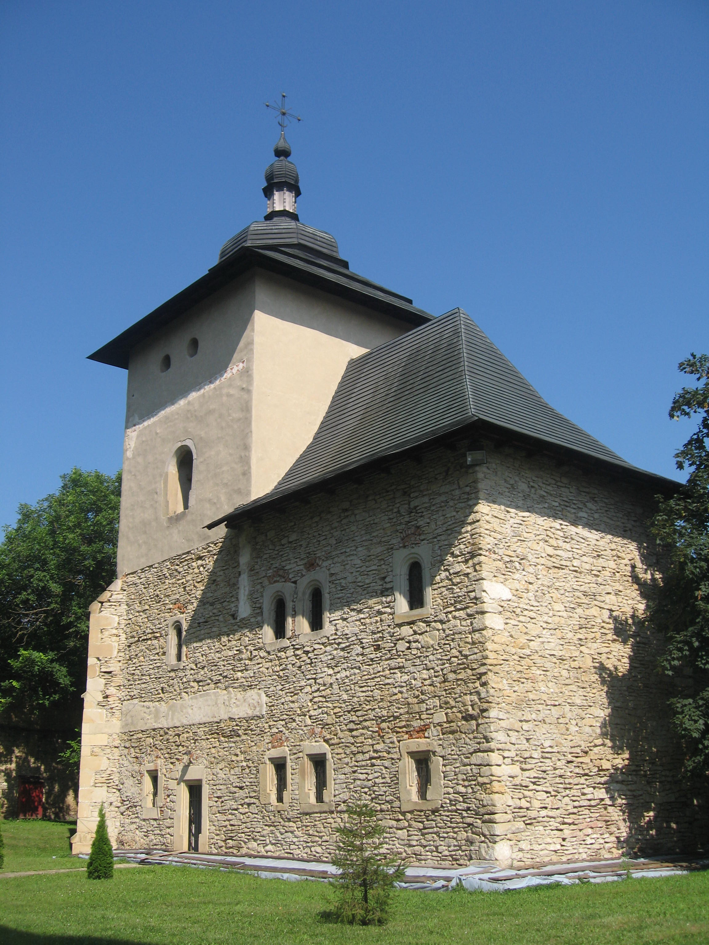 Probota Monastery 02